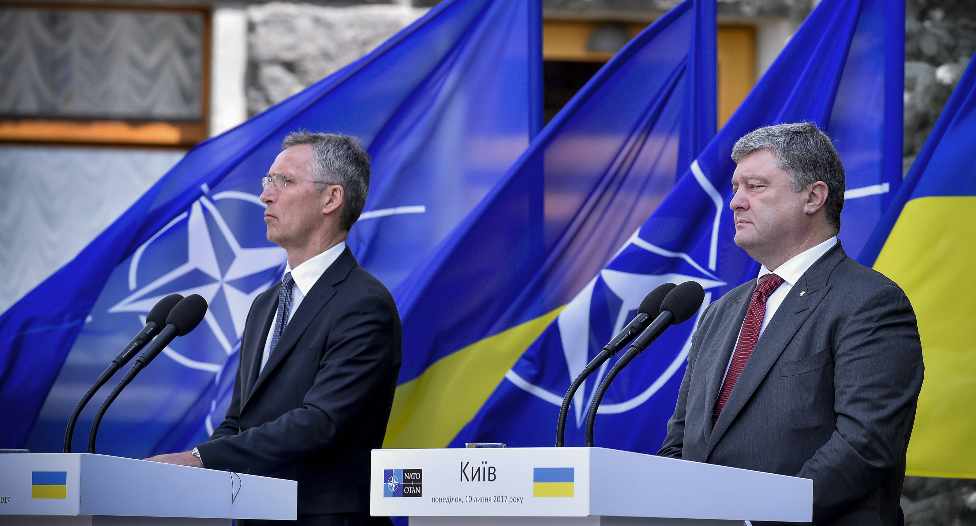 Ukraine – NATO Commission chaired by Petro Poroshenko